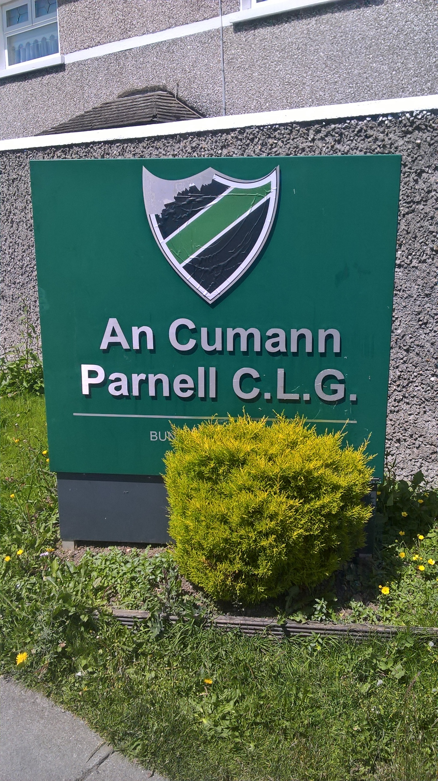 Parnells GAA sign Coolock Village.